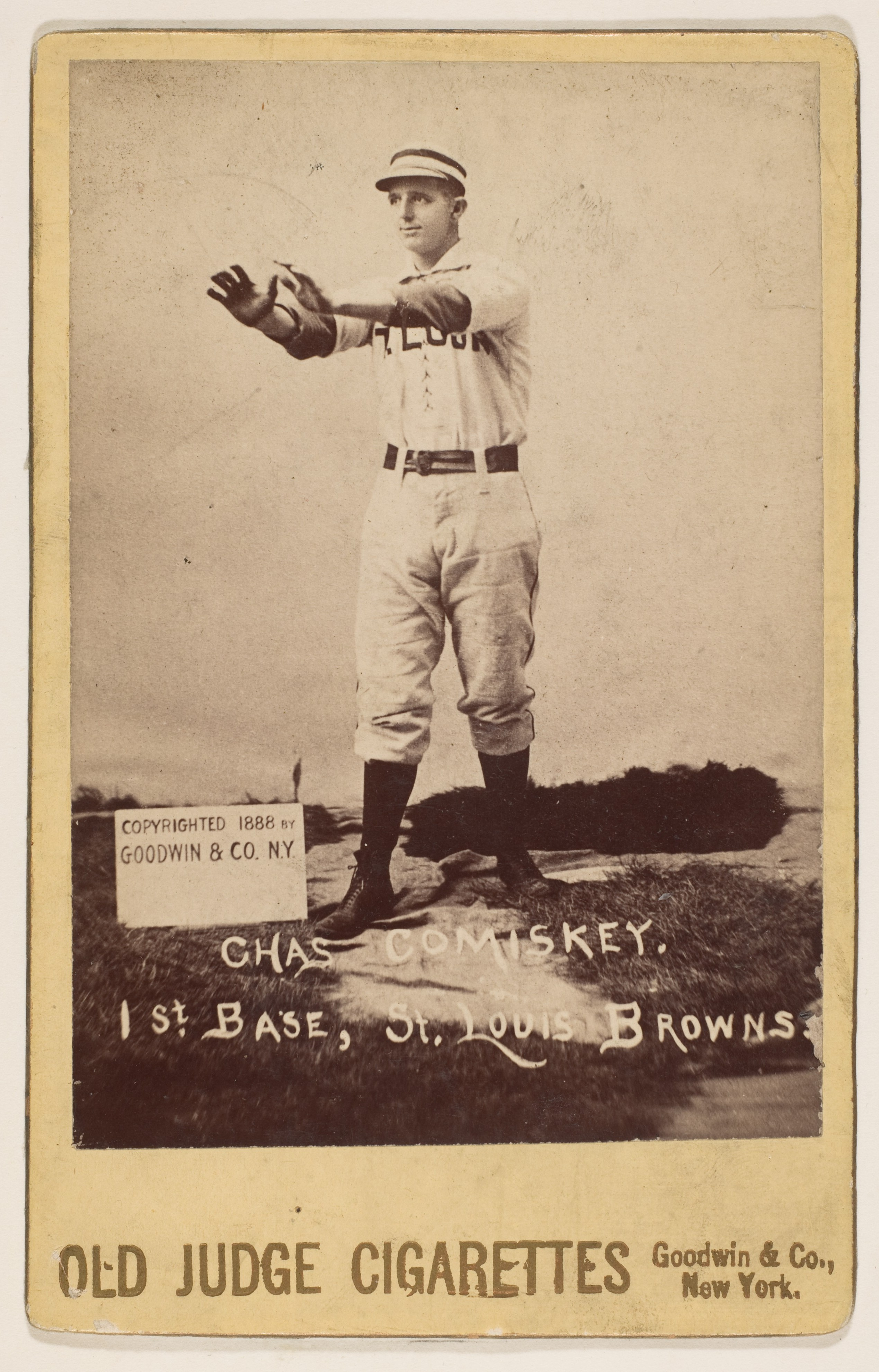 Charles Comiskey, 1st Base, St. Louis Browns, from the 1888 series N173 Old Judge Cigarettes. Goodwin & Company